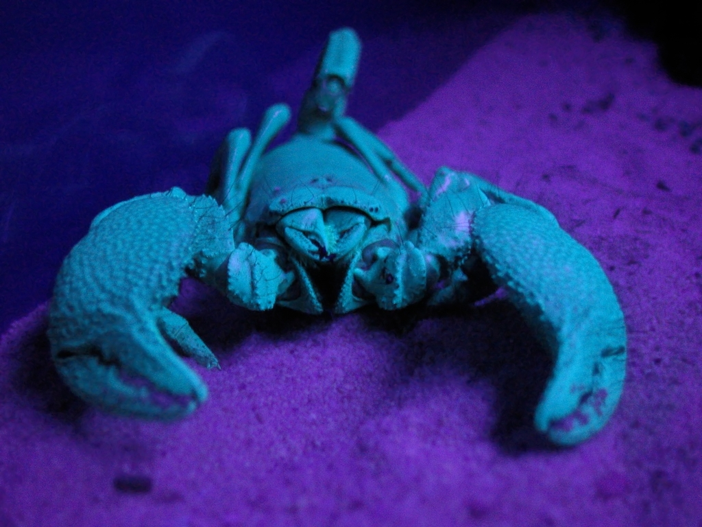 Photograph taken by Jonbeebe 06:41, 27 January 2007 (UTC) This scorpion is black when viewed under normal lighting. Here it is seen illuminated by a blacklight